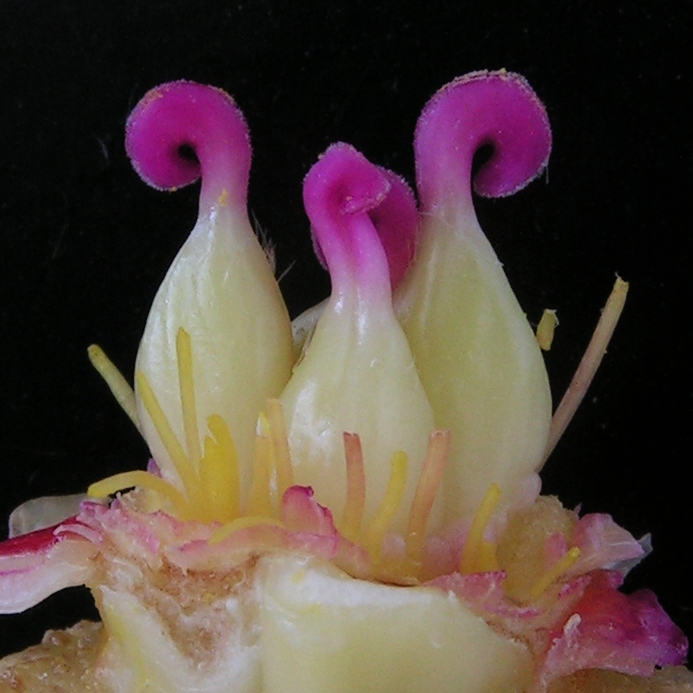 Pistils in peony flower (petals and stamens are removed).